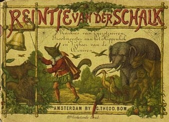 Reynard-edition for children, 19th century